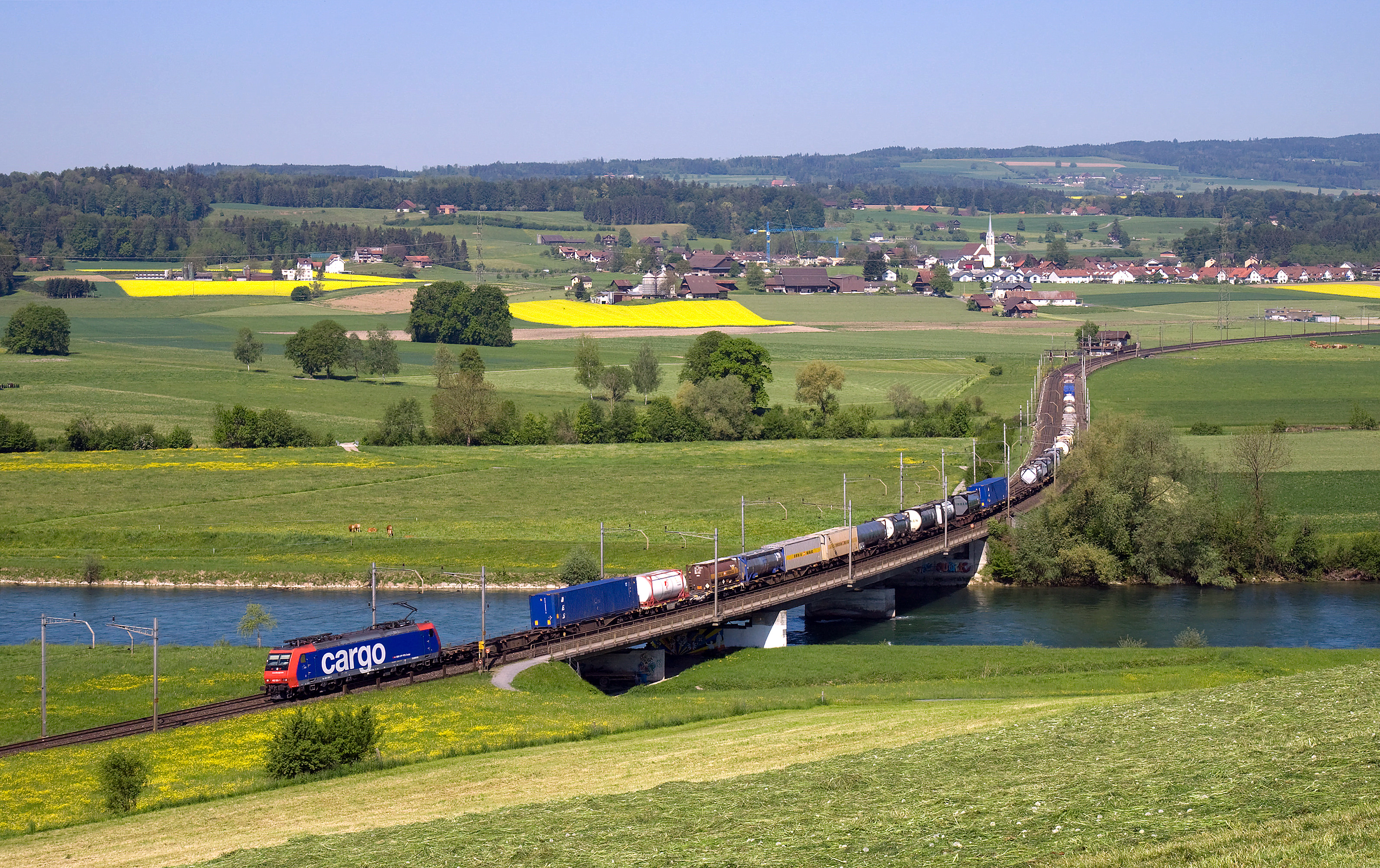 SBB Cargo Re 482 with a freight train crossing the river Reuss near Oberrüti